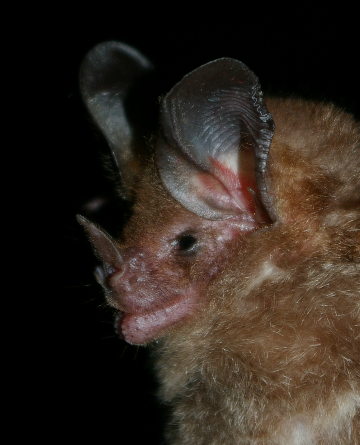 Tonatia saurophila